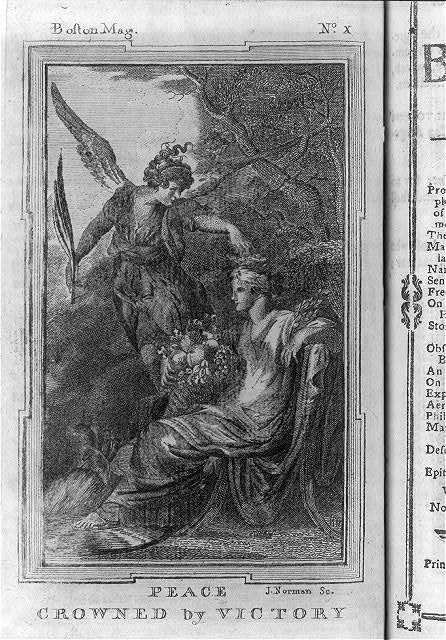 Title: Peace crowned by victory / J. Norman sc. Creator(s): Norman, John, 1748?-1817, engraver. Repository: Library of Congress Rare Book and Special Collections Division Washington, D.C. 20540 USA. Illus. in: The Boston magazine. Boston, Mass. : Norman & White, 1784 August, frontispiece.